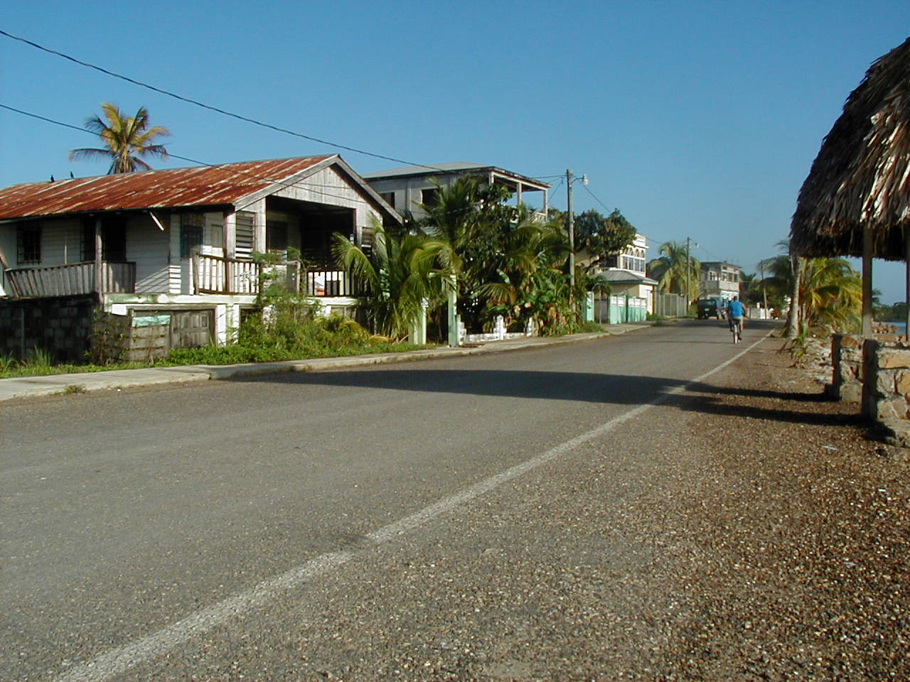 Small shops and inns line the northern part of Front Street in Punta Gorda, Belize. Photo by Gerry Manacsa, February 2002.